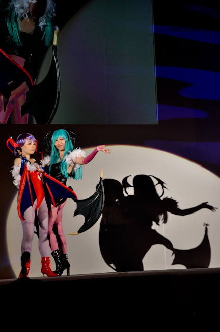 Taken on September 17, 2011 Nikon D90